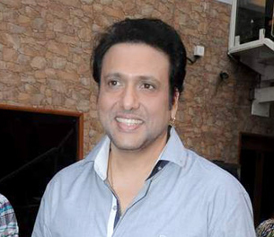 Govinda at Bright Advertising Awards announcement